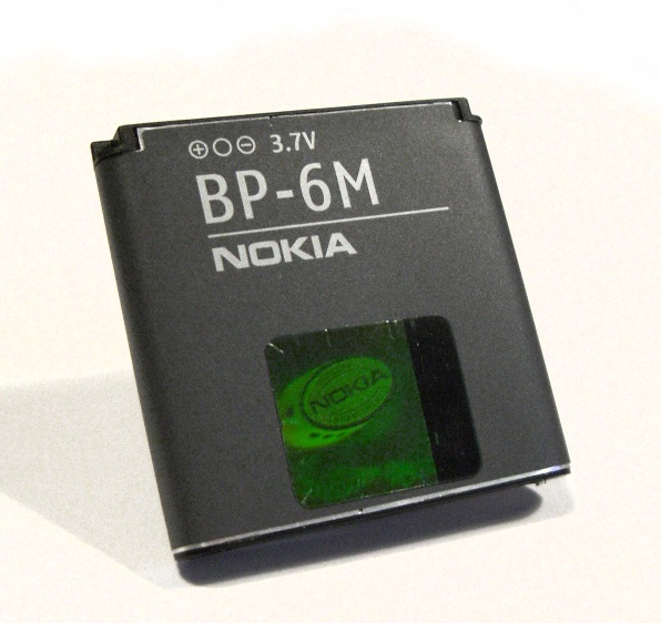 Nokia BP-6M Lithium ion polymer battery. By Richard Wheeler (Zephyris) 2007.